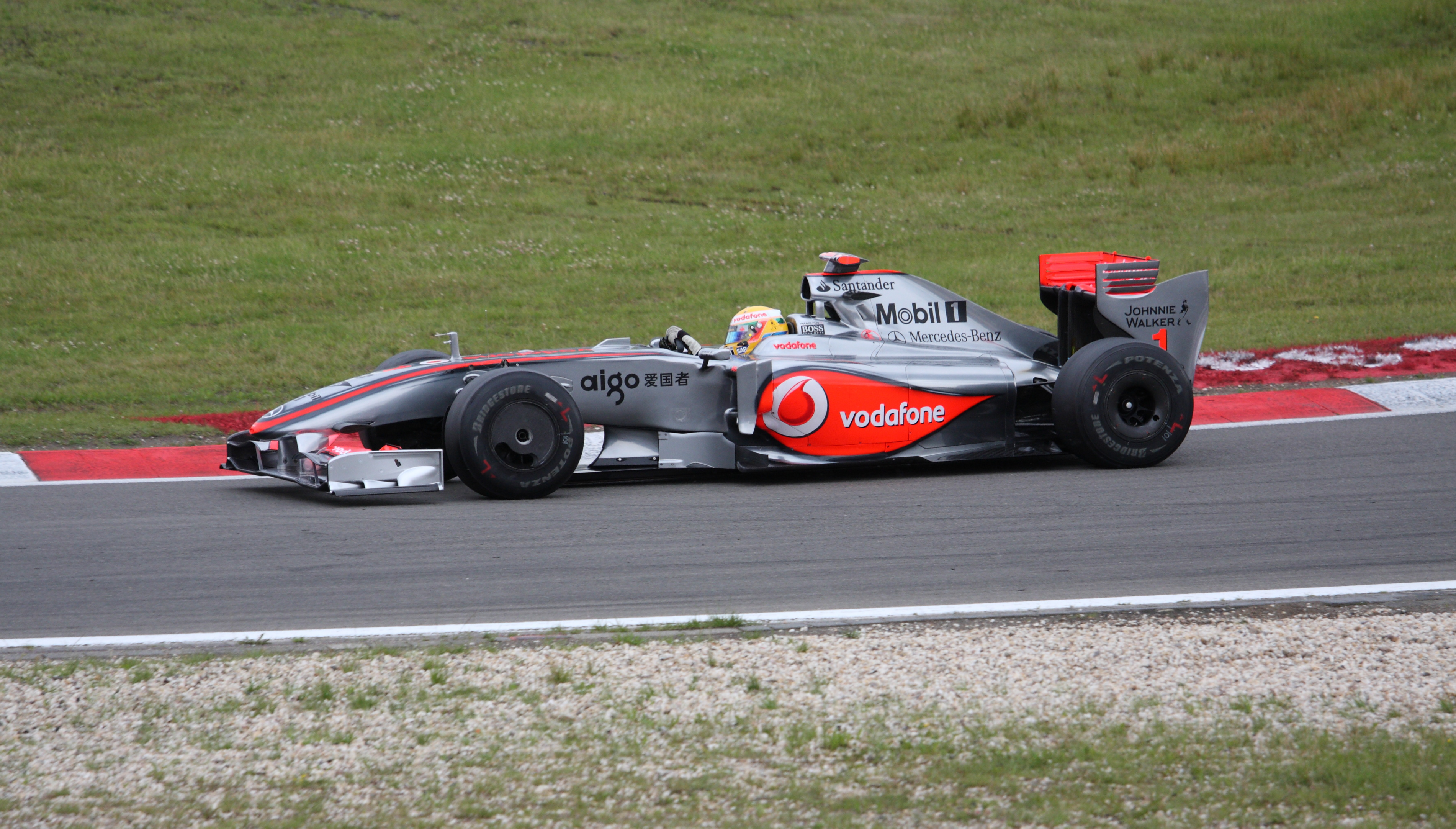 Lewis Hamilton driving for McLaren at the 2009 German Grand Prix.